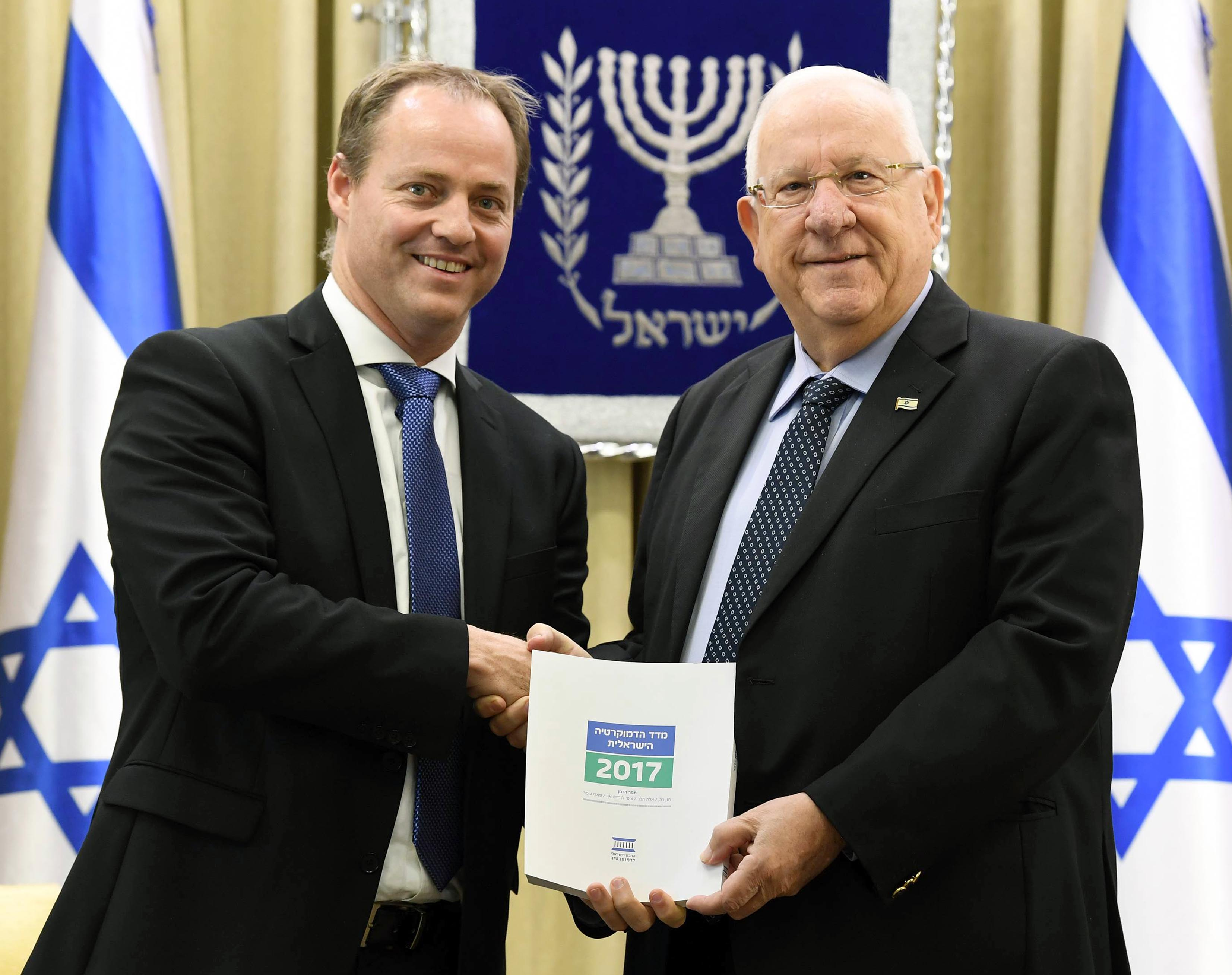 The President of the State, Reuven Rivlin, receives the Israeli Democracy Index for 2017. Tuesday, December 12, 2017. Photo credit: Mark Neyman / GPO In pictures: President Reuven (Ruby) Rivlin and the President of the Israel Democracy Institute Yohanan Plesner.